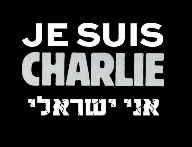 I am Charlie, I am an Israeli.